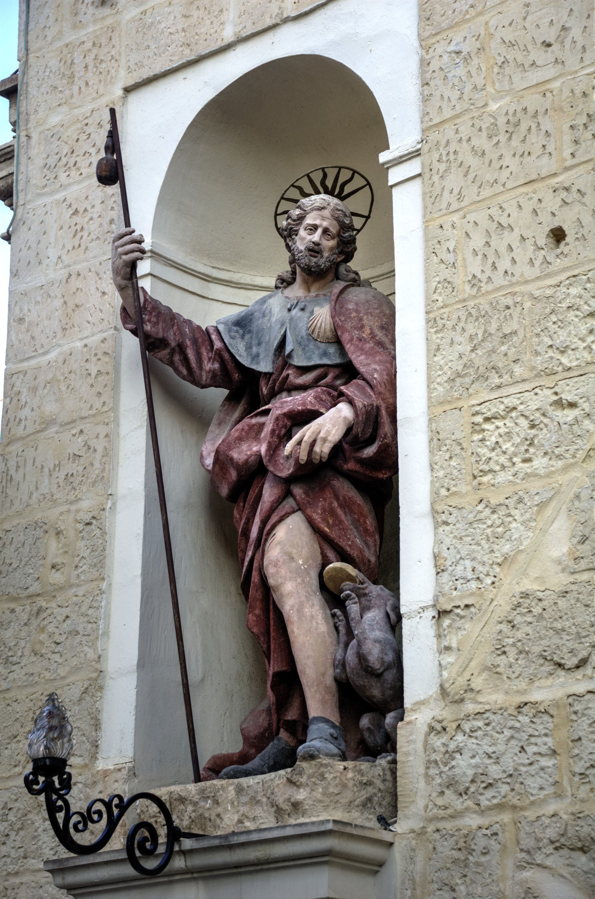 Niche of St Roque, in Birkirkara, Malta This media is about Maltese cultural property with inventory number 00224.